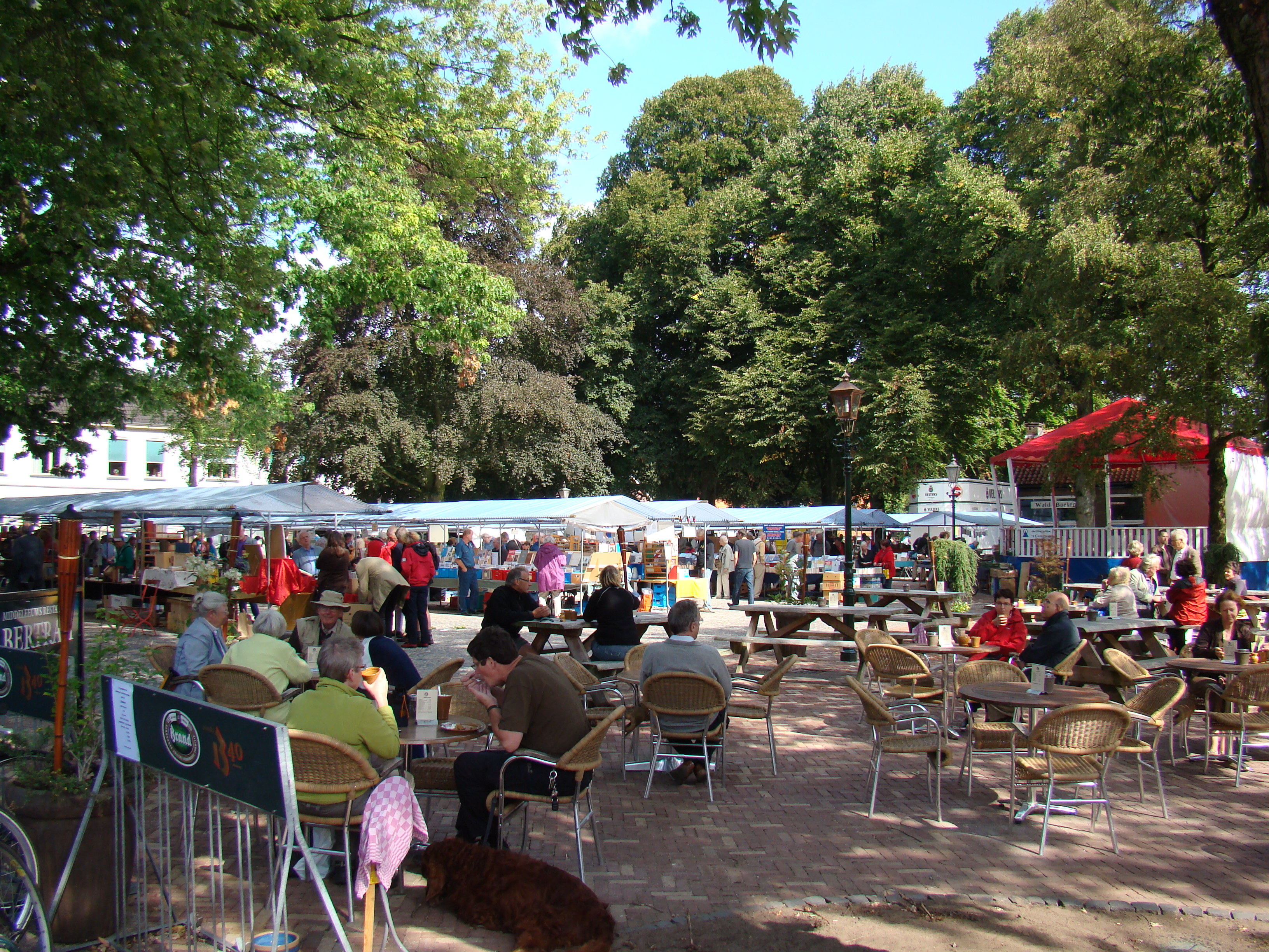 Bookmarket at Bredevoort, Booktown, Netherlands